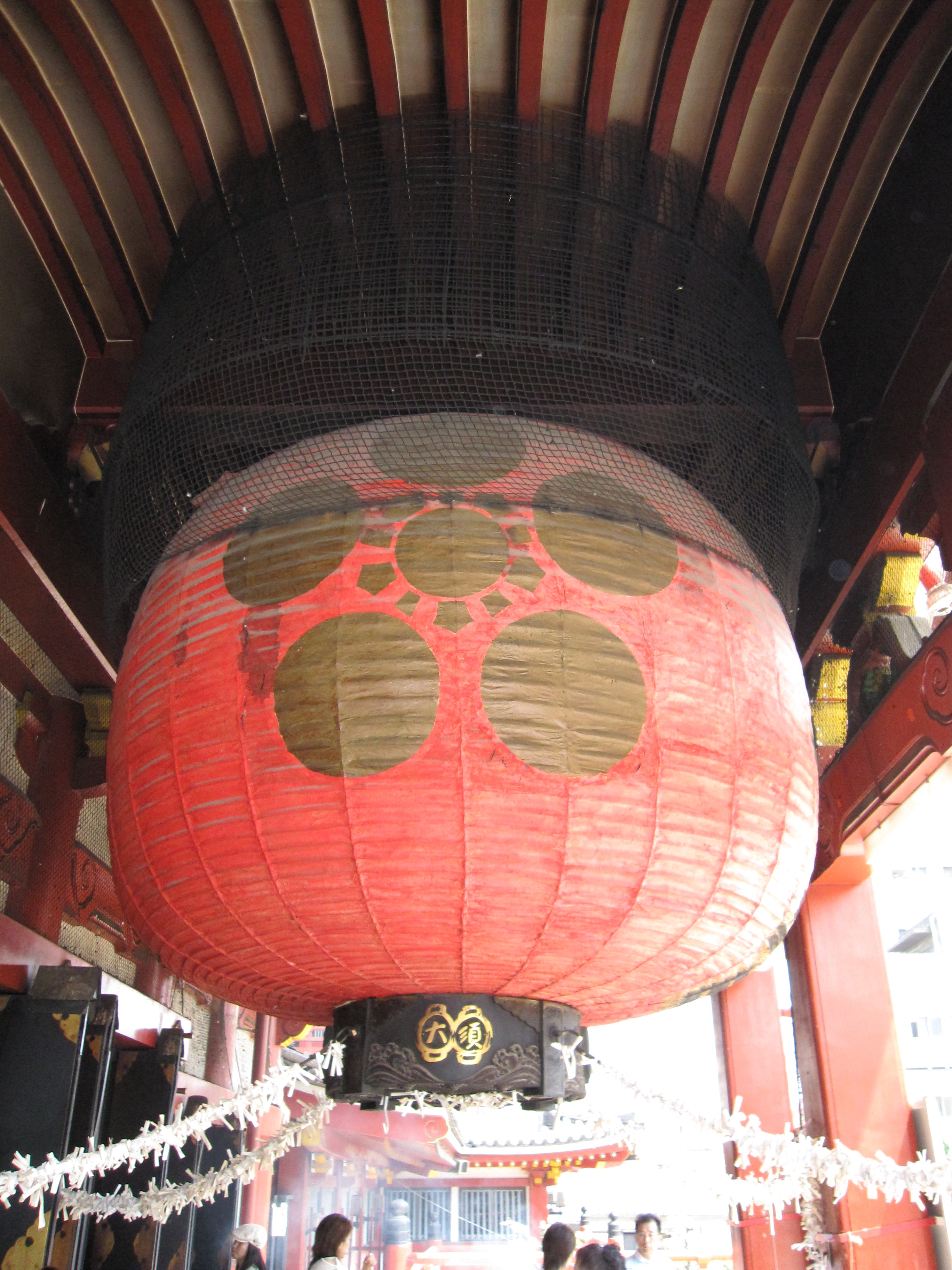 Large red paper lantern hanging from the ceiling of the main hall of the temple of Ōsu Kannon in Nagoya, central Japan. The white paper tied to the holding wires are wishes by worshippers.